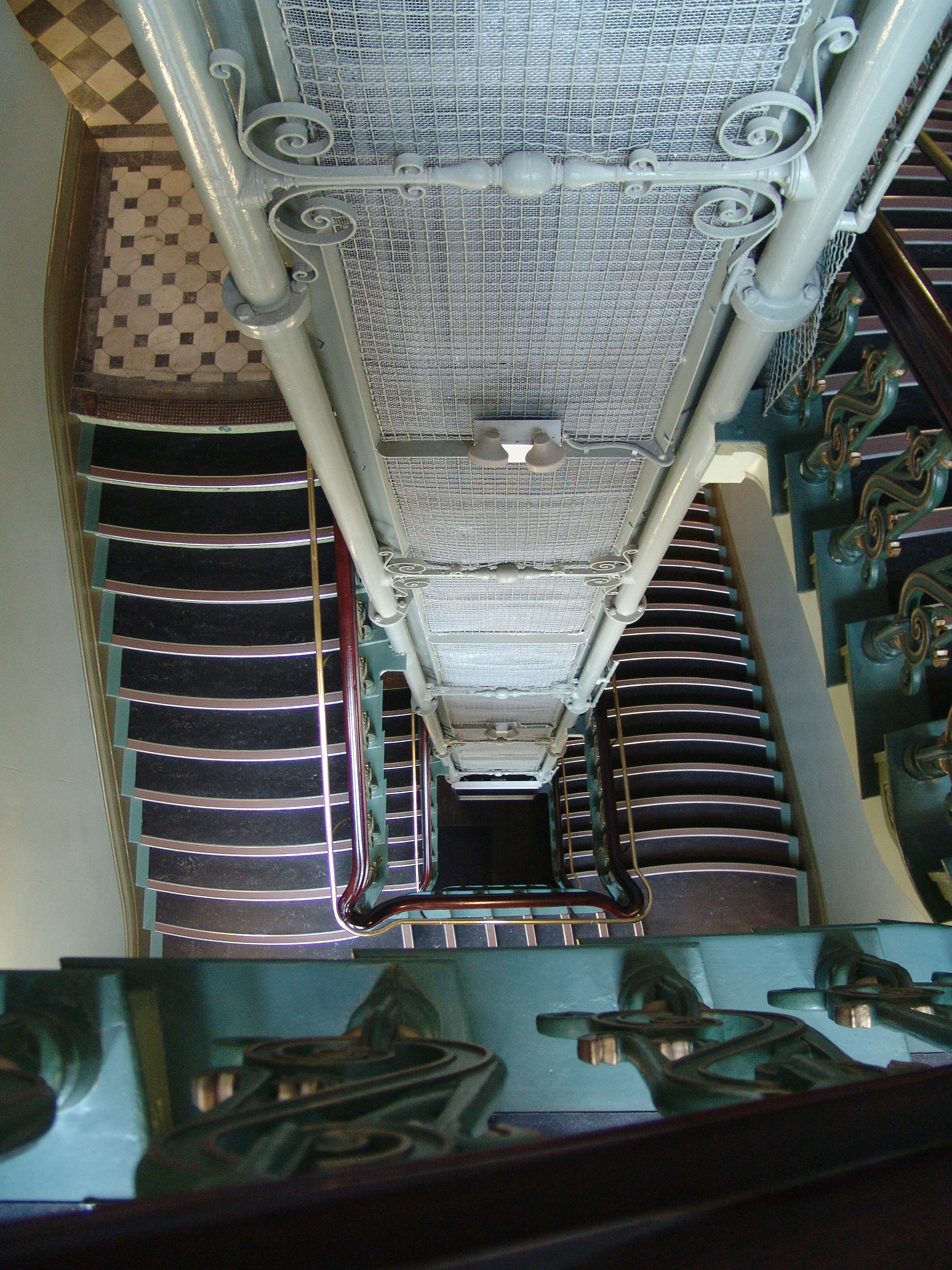 Stairwell and elevator cage at the Chief Secretary's building, Sydney